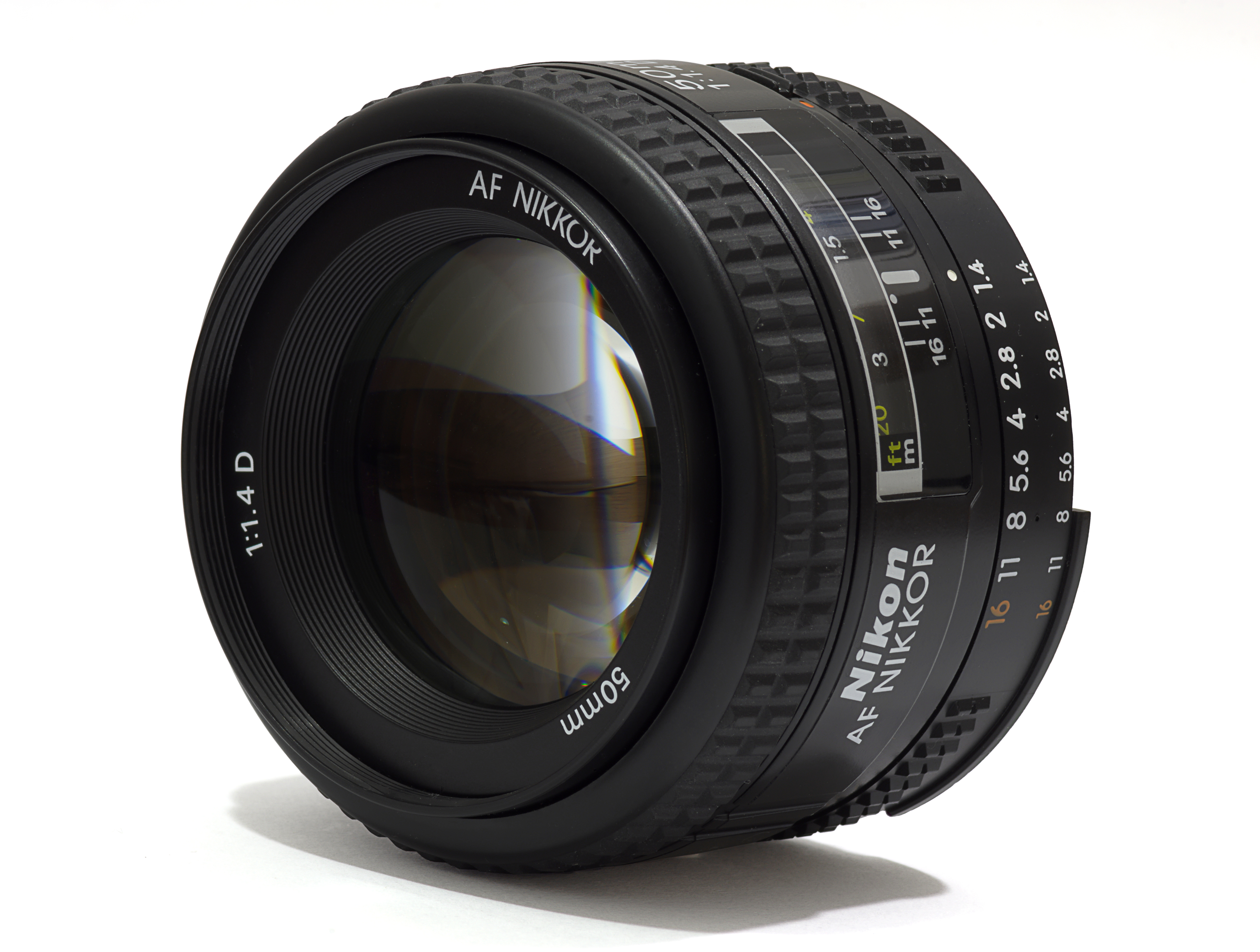 AF-D Nikkor 50mm F 1.4G